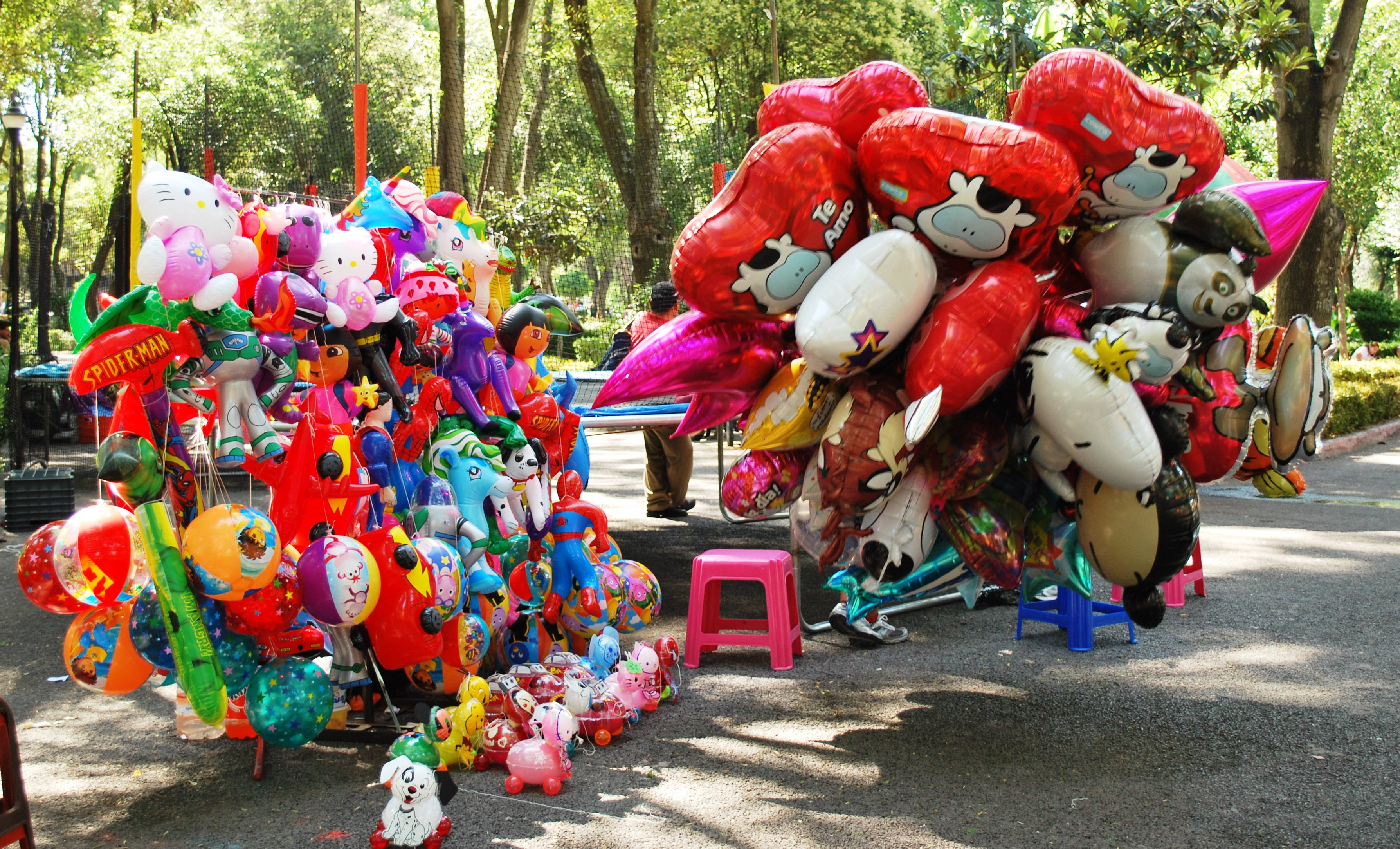 Balloons and inflatable toys for sale at the Los Venados Park in Benito Juarez borough in Mexico City